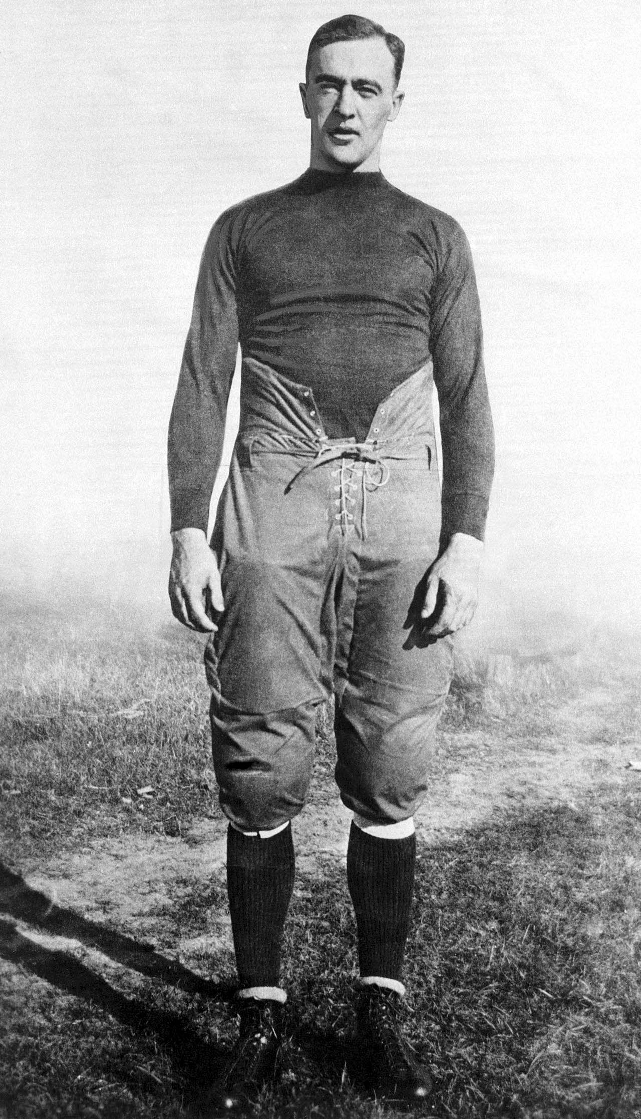 George Gipp, Notre Dame Fighting Irish football running back who died in 1920